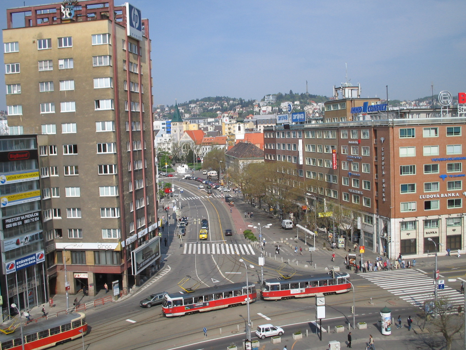 NÁMESTIE SNP + MANDERLÁK